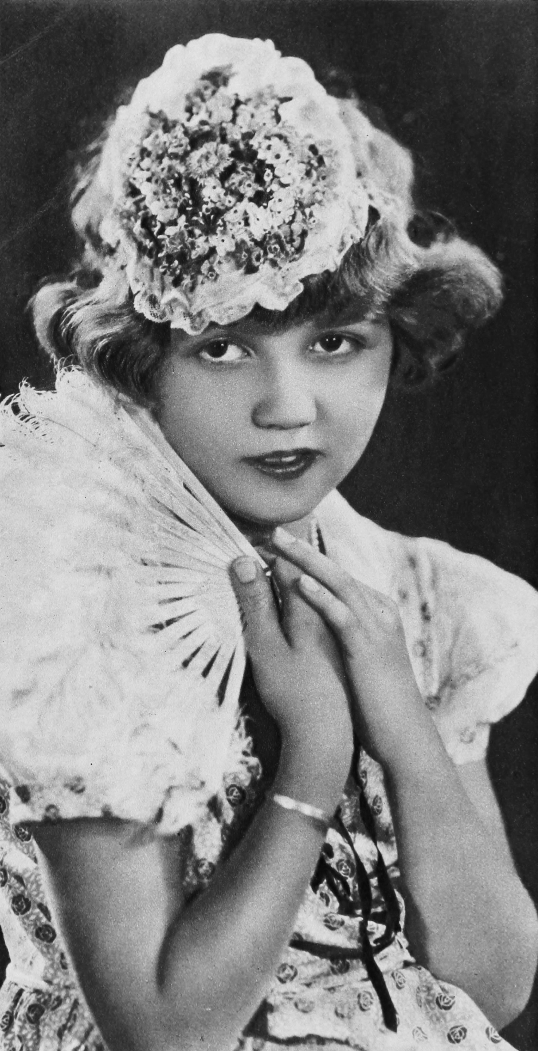 Portrait of Mary Kornman